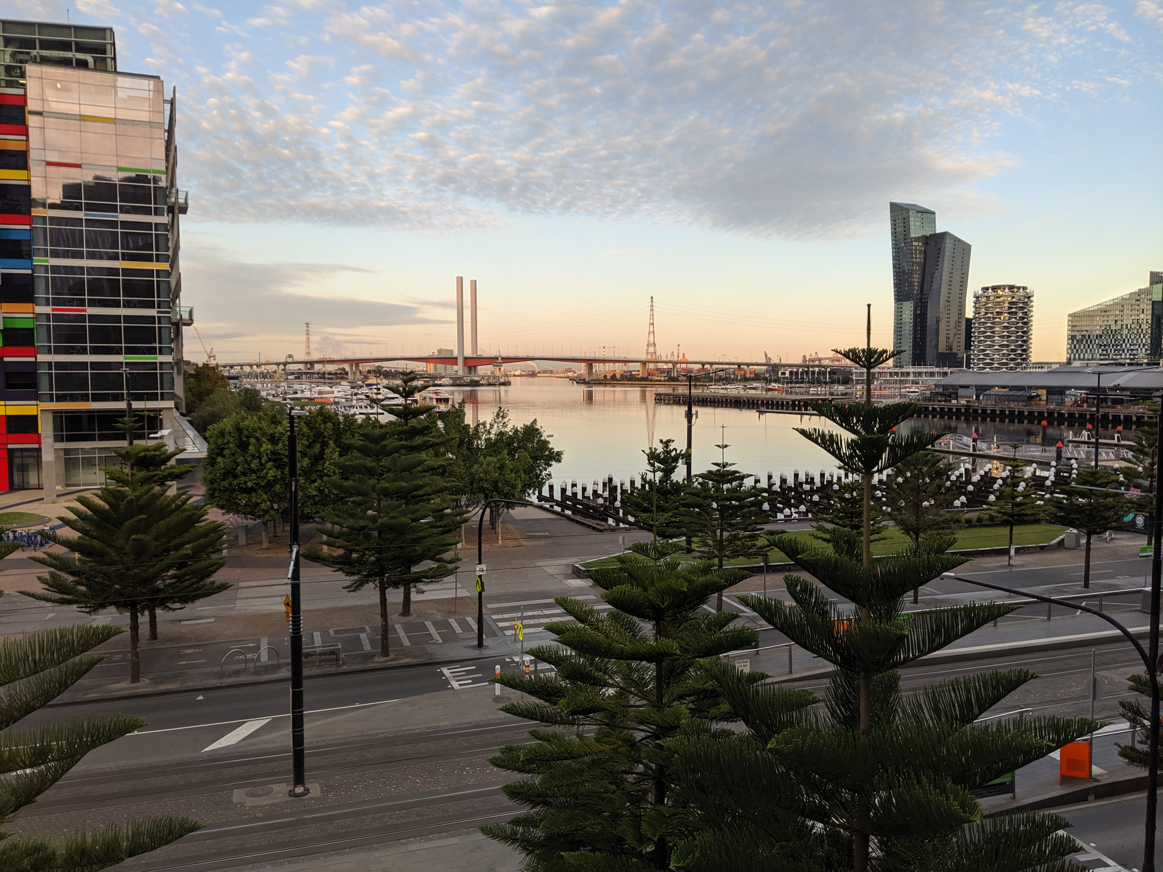 A view from Marvel Stadium